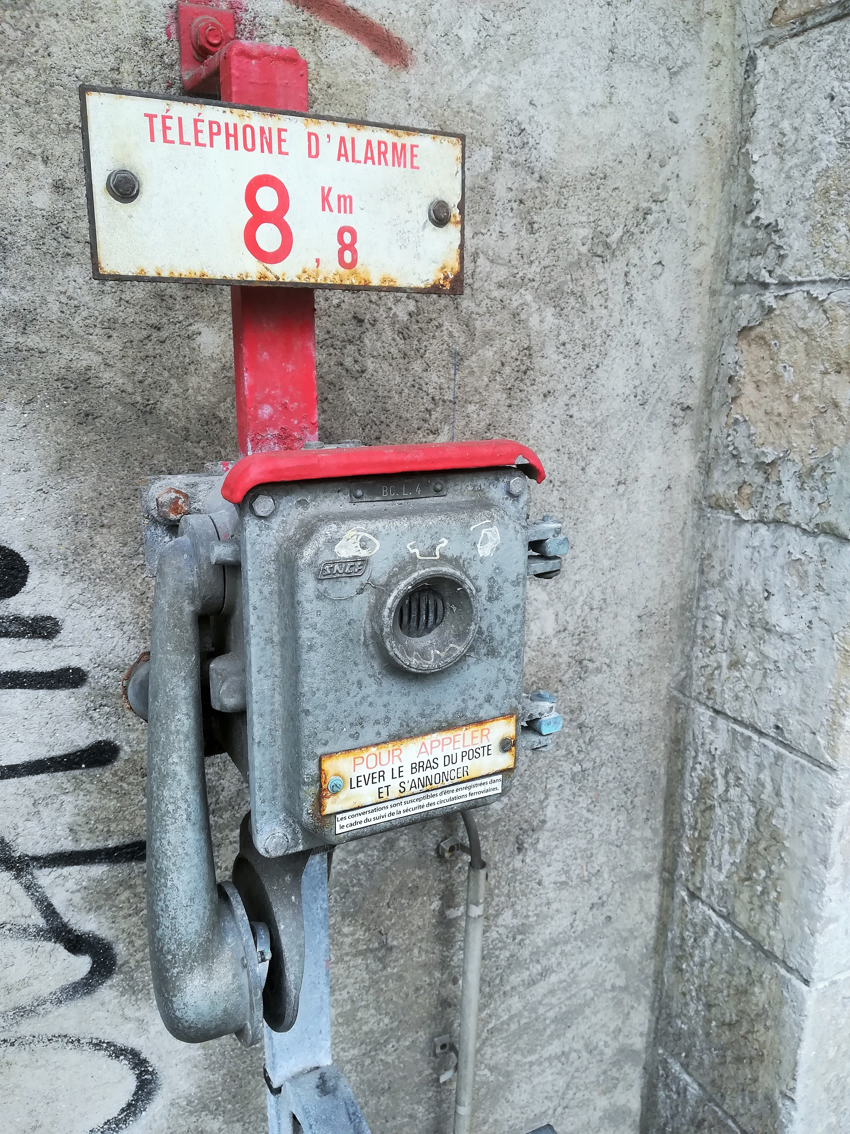 Alarm phone on the platform of a suburban train station near Paris, France.